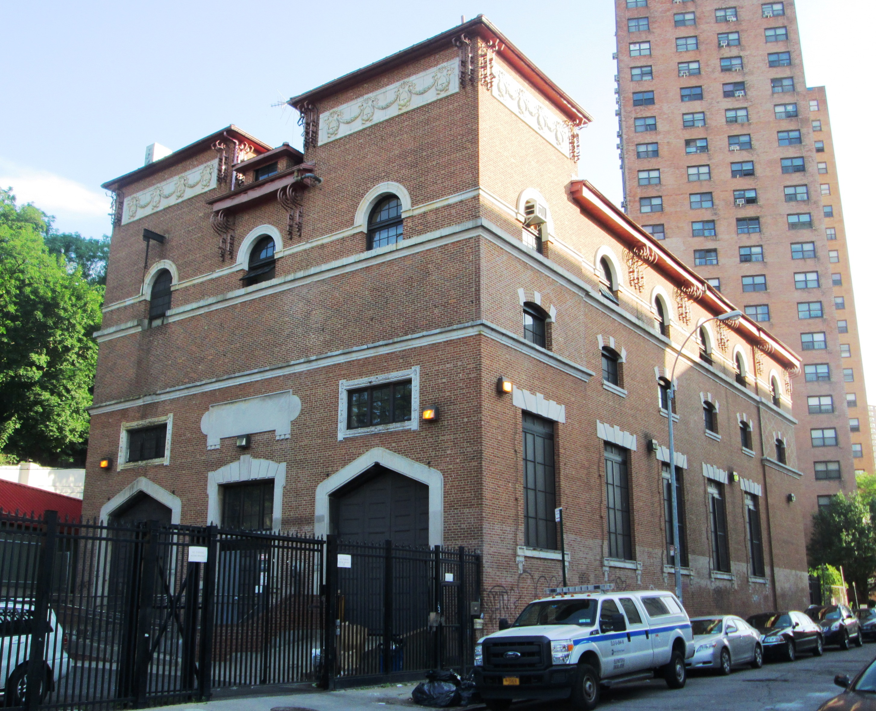 The Dyckman-Hillside Substation, also known as Substation 17, is an historic electrical substation located at 127-129 Hillside Avenue between Sickles Street and Nagle Avenue, near the Dyckman Street station of the IRT Broadway-Seventh Avenue line, in the Washington Heights neighborhood of Manhattan, New York City. It was one of eight substations constructed by the Interborough Rapid Transit Company in 1904-05, and was designed in the Beaux-Arts style.